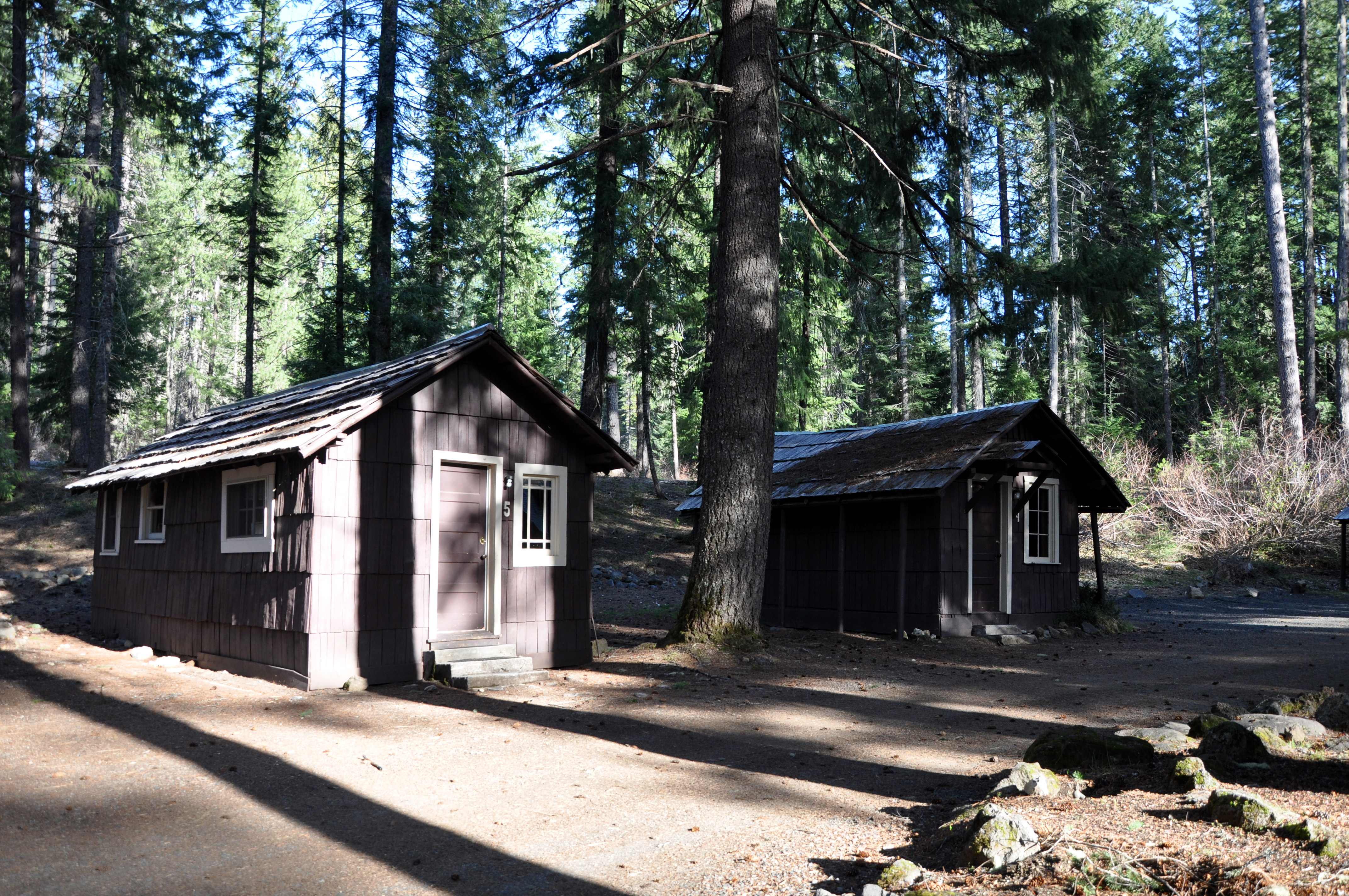 Cabins at Union Creek Resort, along the Rogue River in the U.S. state of Oregon. The resort is on the National Register of Historic Places.